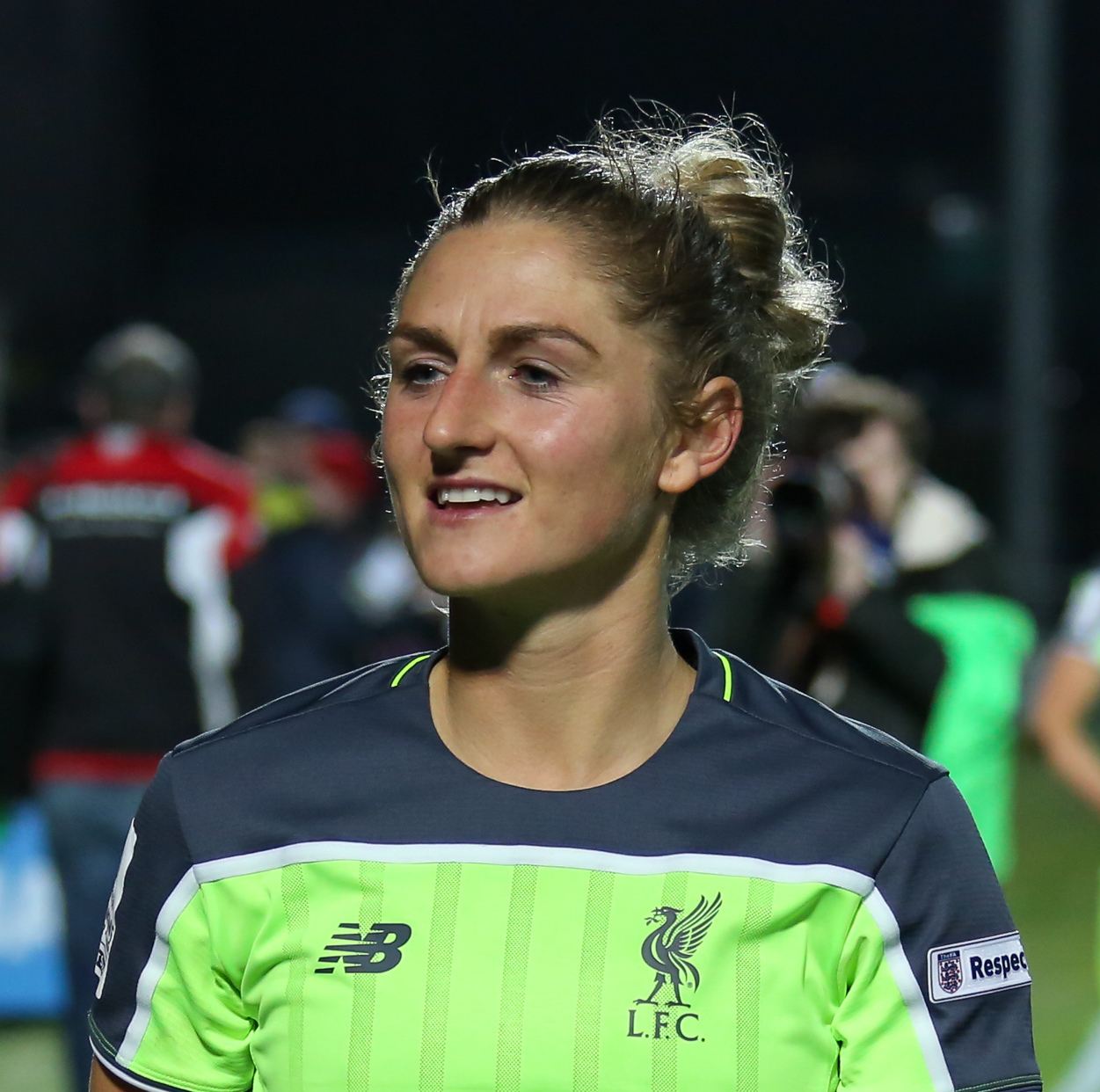 Arsenal LFC v Liverpool LFC, 4 May 2017